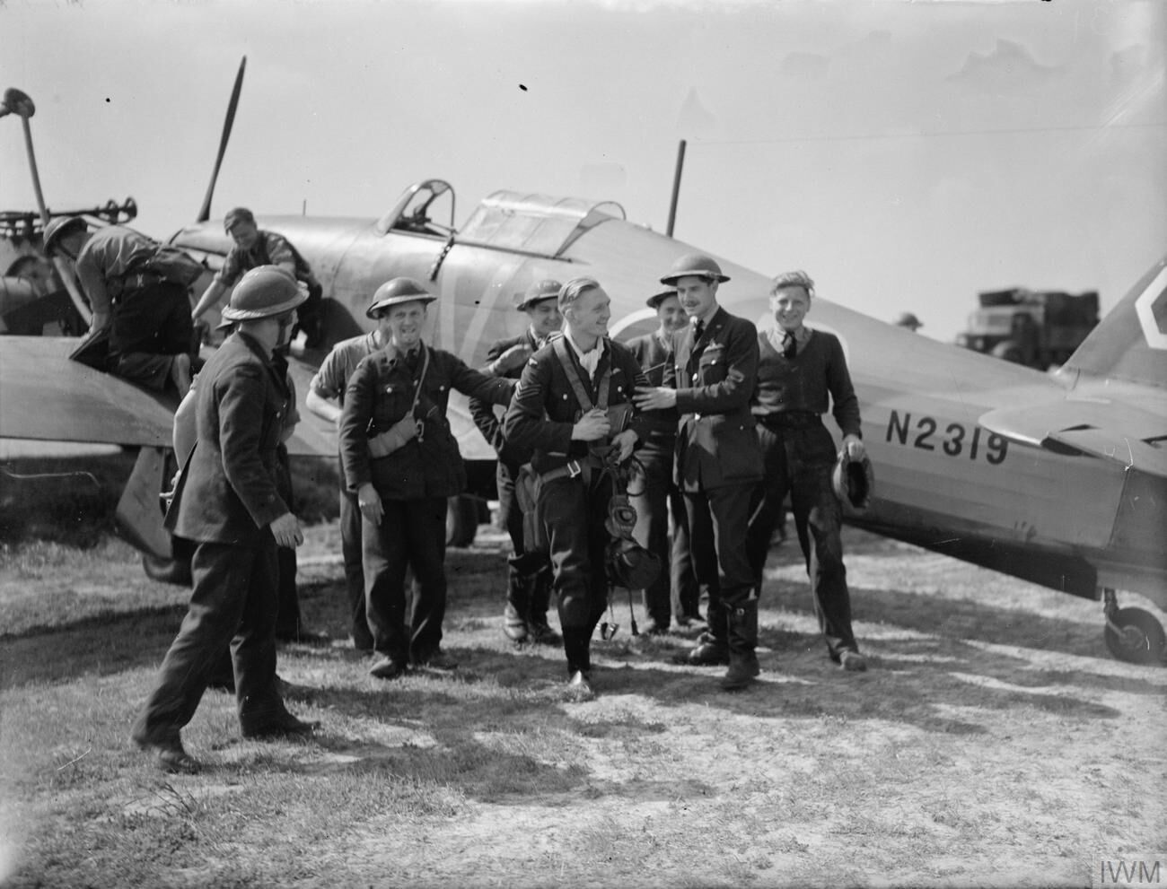 Royal Air Force- France 1939-1940. Sergeant G "Sammy" Allard of No. 85 Squadron RAF being congratulated on his return to Lille-Seclin in France on the evening of 10 May 1940, after shooting down the second of two Heinkel He 111s claimed by him that day. Behind him, ground crew are busy refuelling and rearming his Hawker Hurricane Mark I, N2319 'VY-P'.